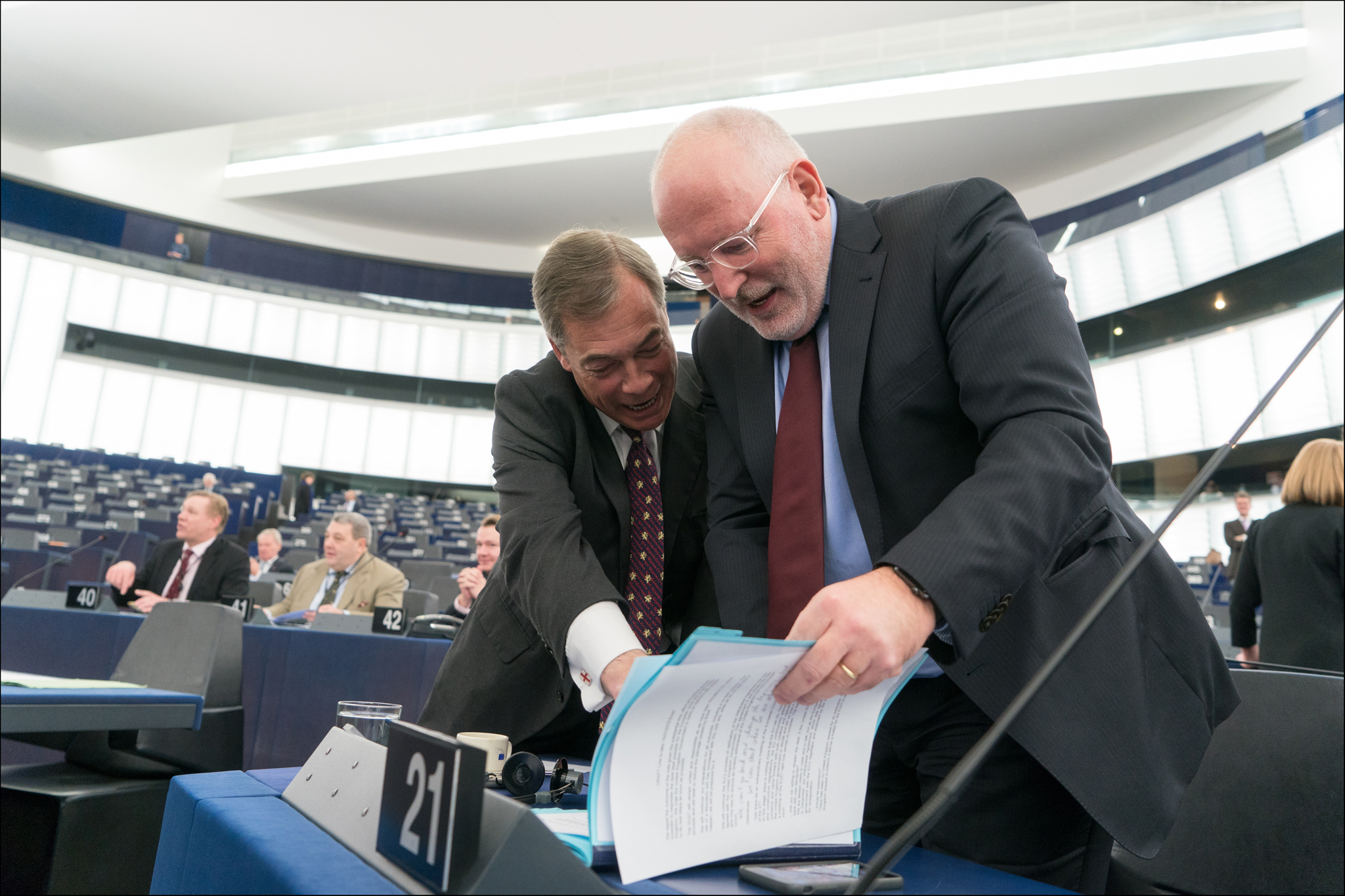 Following the UK parliament's rejection of the Brexit deal in a vote last evening, members of the European Parliament have underlined that the EU will remain united and that citizens’ rights are Europe's priority. Speaking in a debate in Parliament today, Commission Vice-President Frans Timmermans said commitments on the peace process and the border in Ireland or on citizens’ rights cannot be watered down. Parliament's lead member on Brexit @guyverhofstadt called on UK politicians to build a positive majority to break the Brexit deadlock. READ MORE ►► This photo is free to use under Creative Commons license CC-BY-4.0 and must be credited: "CC-BY-4.0: © European Union 20XY – Source: EP". No model release form if applicable. For bigger HR files please contact: webcom-flickr(AT)